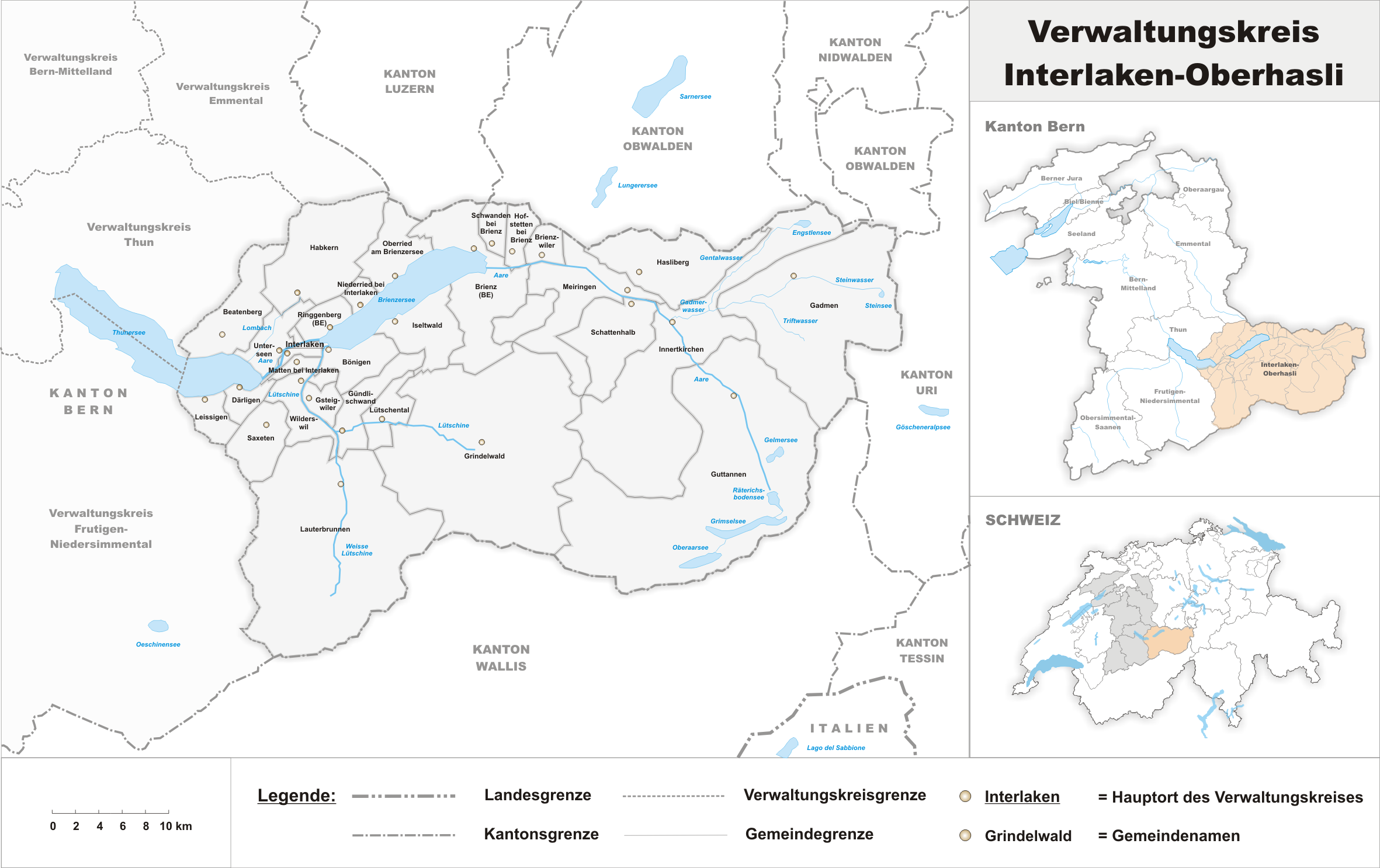 Municipalities in the district of Interlaken-Oberhasli